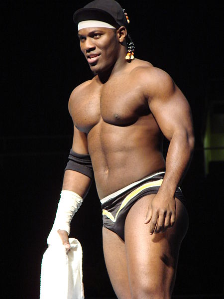 Elijah Burke at an ECW live event in Champaign, IL on February 4, 2007.